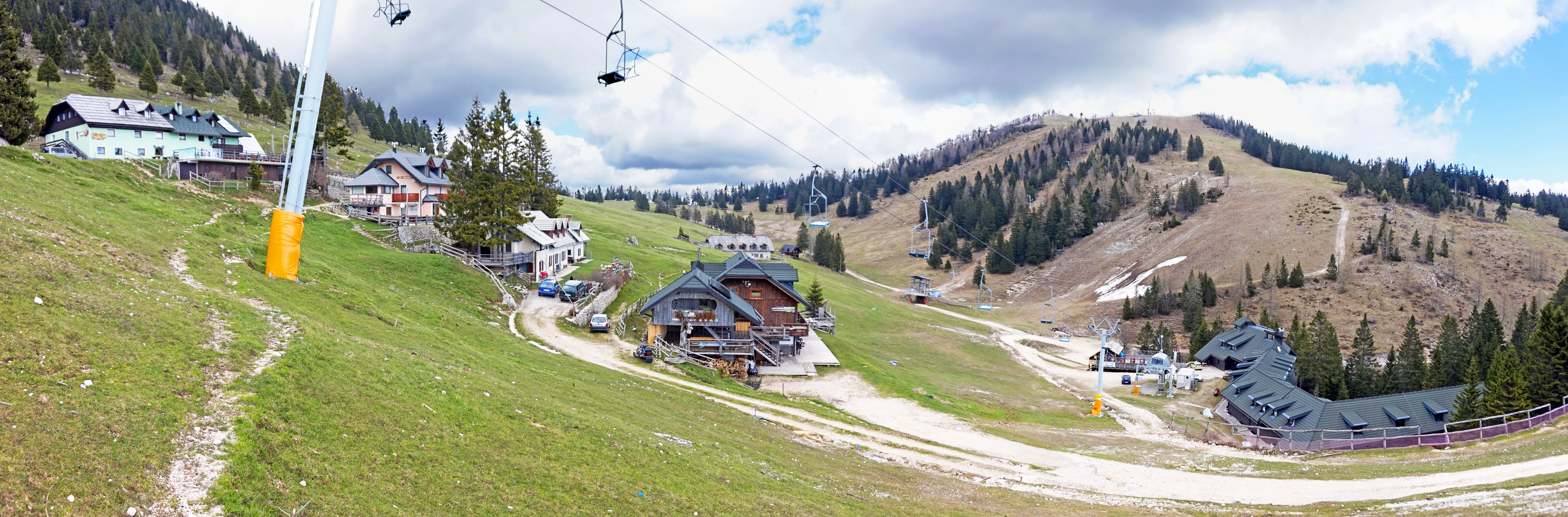 Kriška planina in Slovenia.This photograph was taken with a Sony ILCE-5000